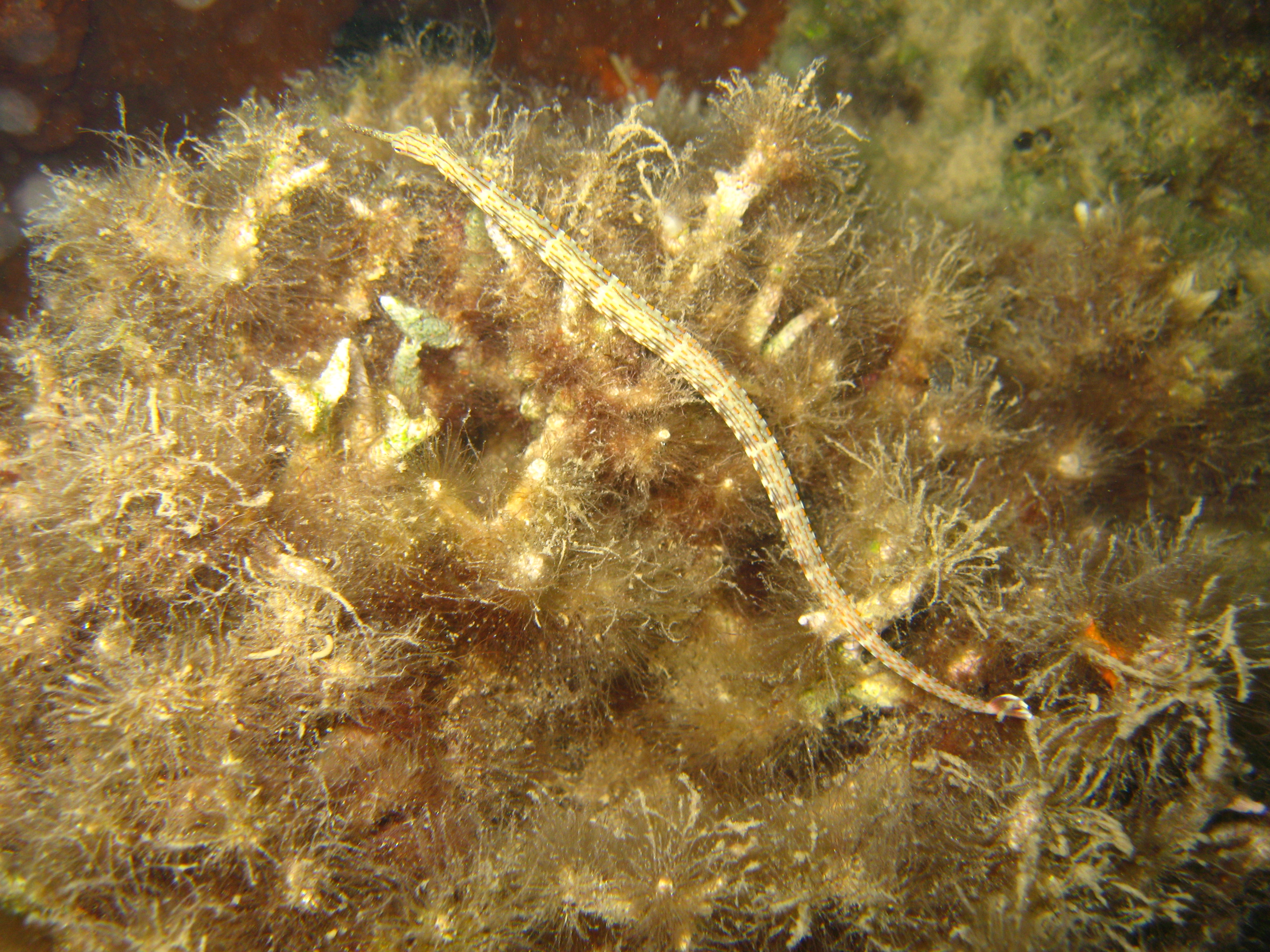 Image of an ocellated pipefish, Chorythoichthys ocellatus. Taken at Lembeh straits, North Sulawesi, Indonesia.